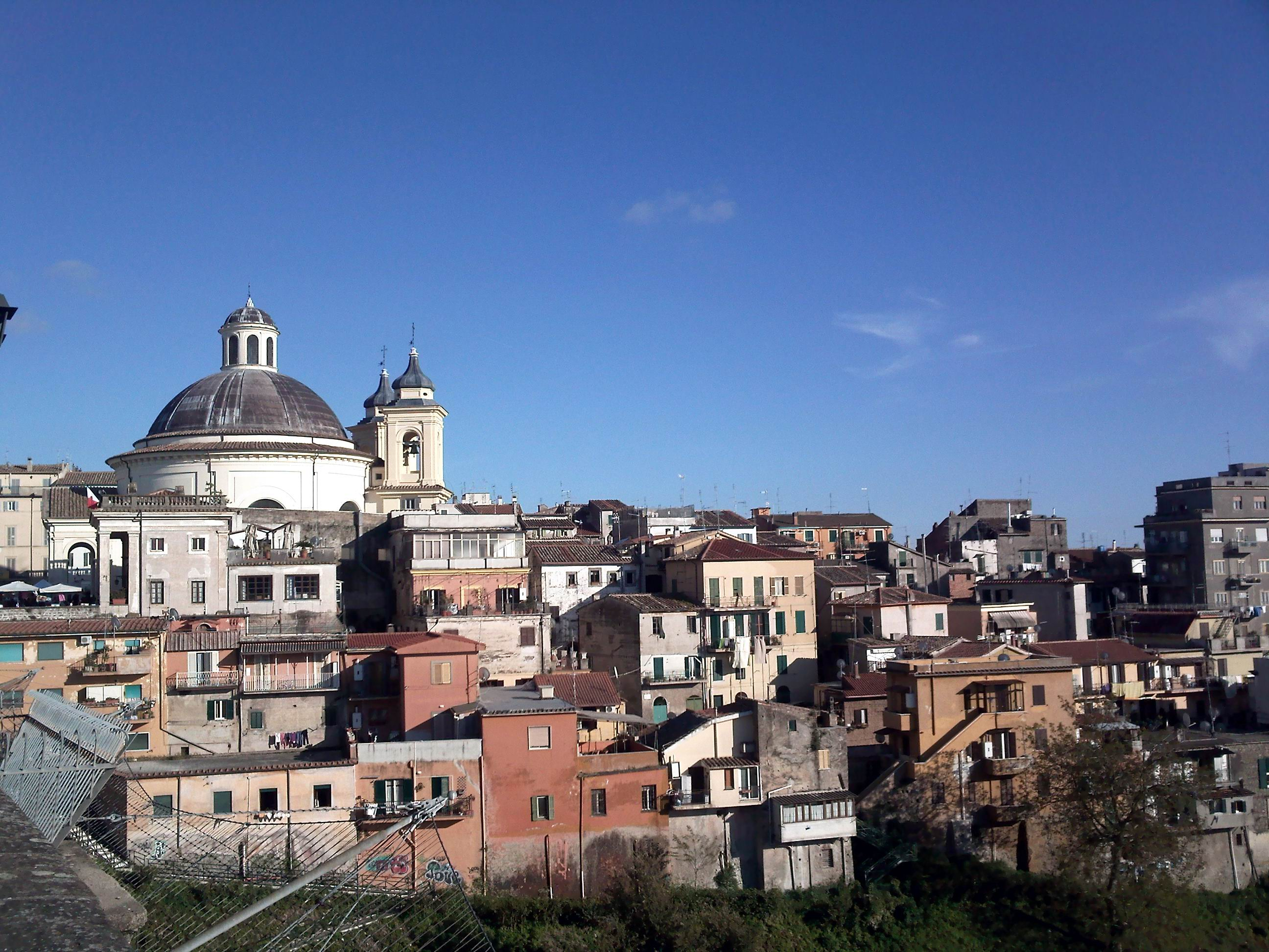 Ariccia (Rm) - The old town